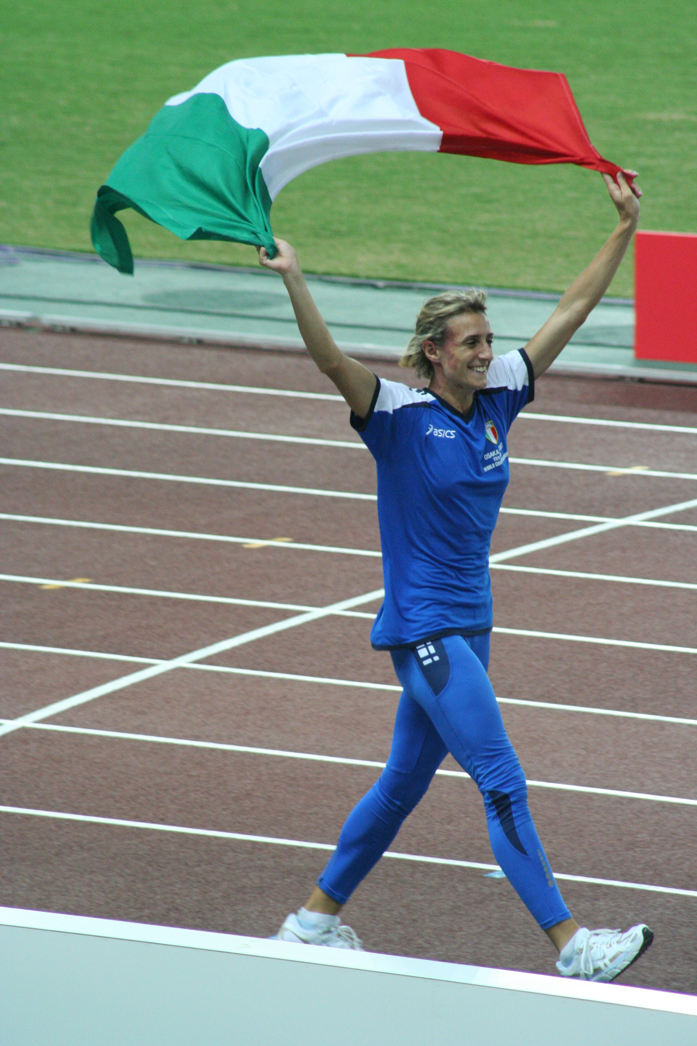 World Athletics Championships 2007 in Osaka - Antonietta di Martino celebrating after winning silver in the women's high jump